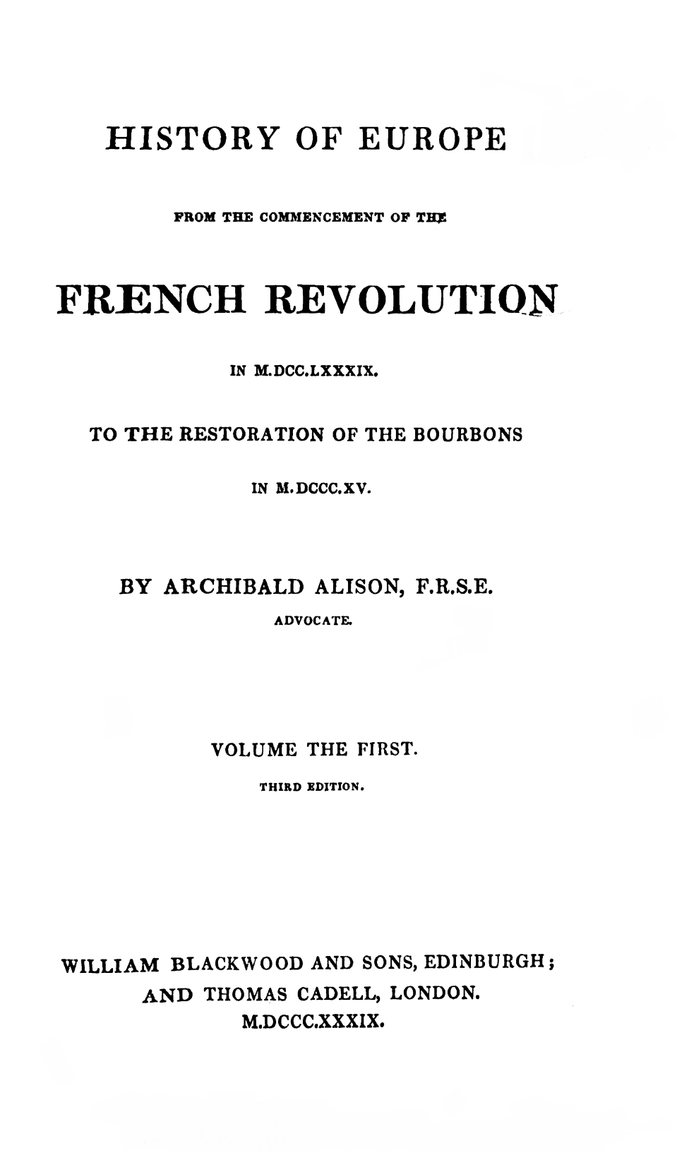 Sir Archibald Alison's "History of Europe from the commencement of the French revolution in M.DCC. LXXXIX. to the restoration of the Bourbons, in M.DCCC.XV"